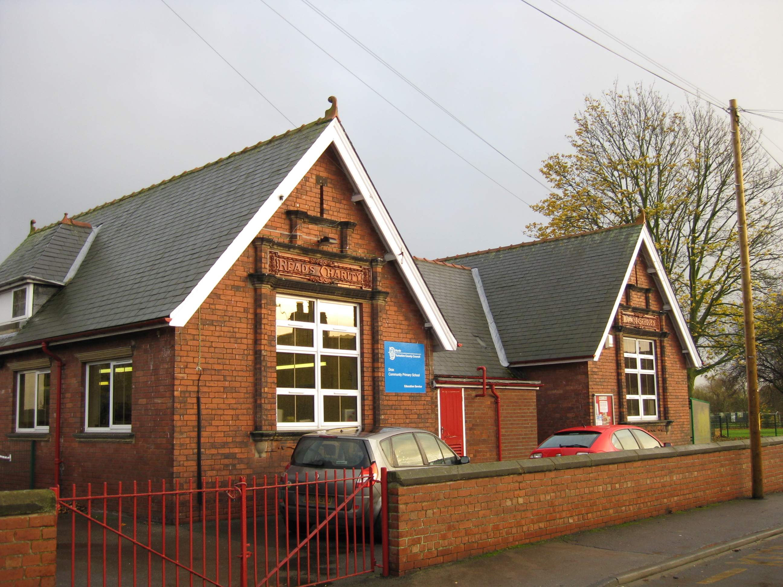 Drax primary school, Castle Hill Lane, Drax, North Yorkshire YO8 8NP